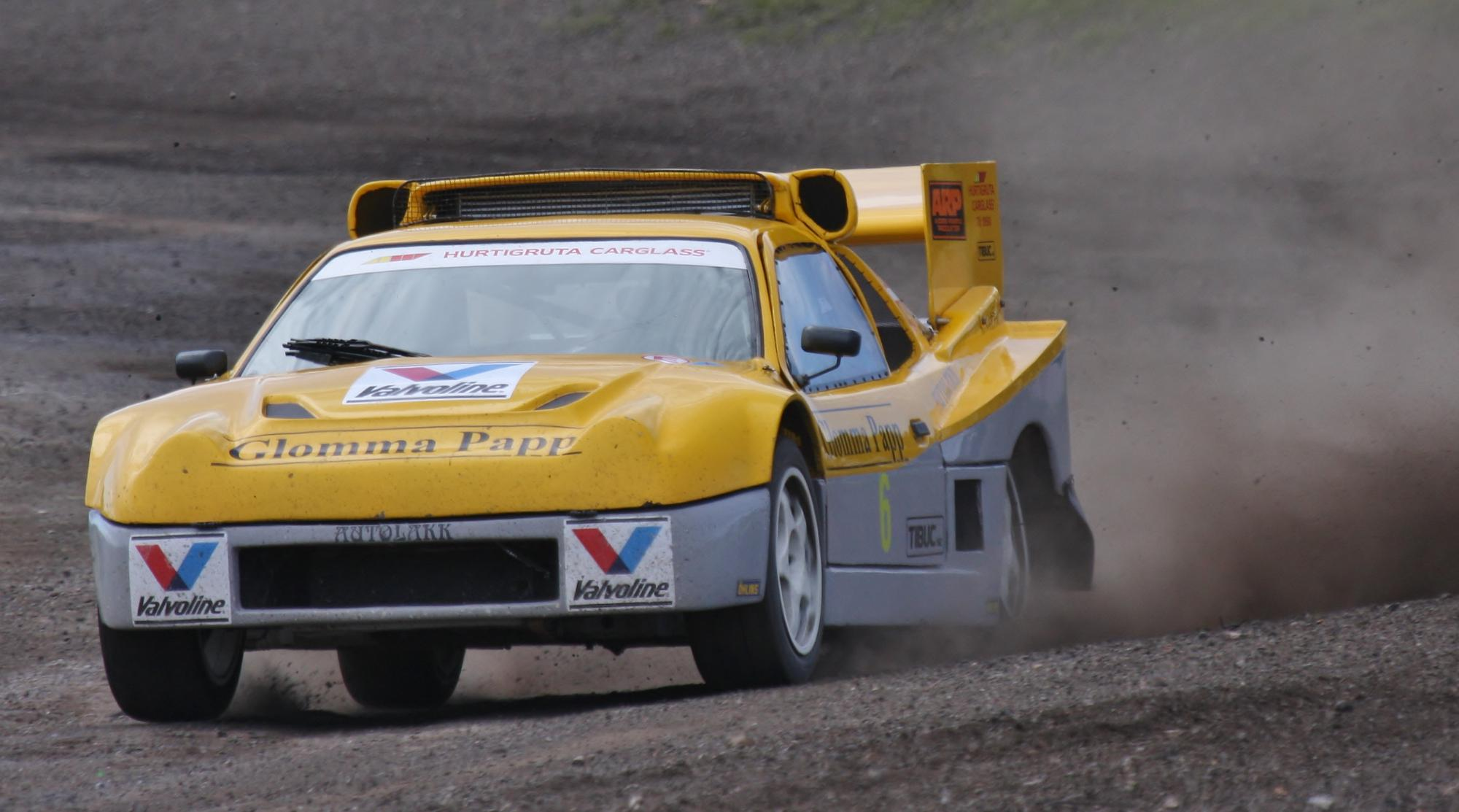 Demonstration of Jan Artur Iversen's Ford RS200 at Lydden Hill. Round 2 of the FIA World Rallycross Championship.